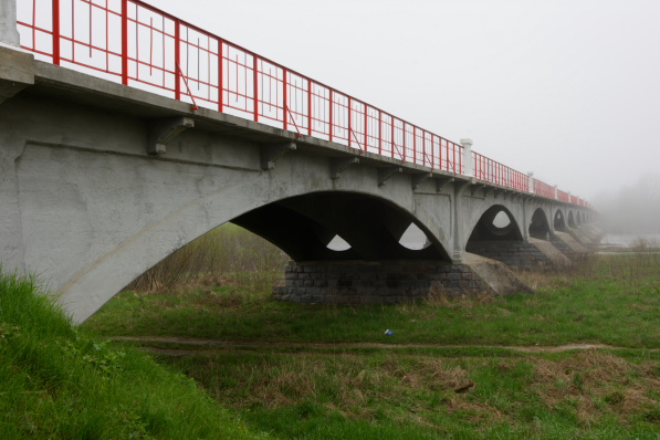 The Kasari old bridge in Lääne County, Estonia